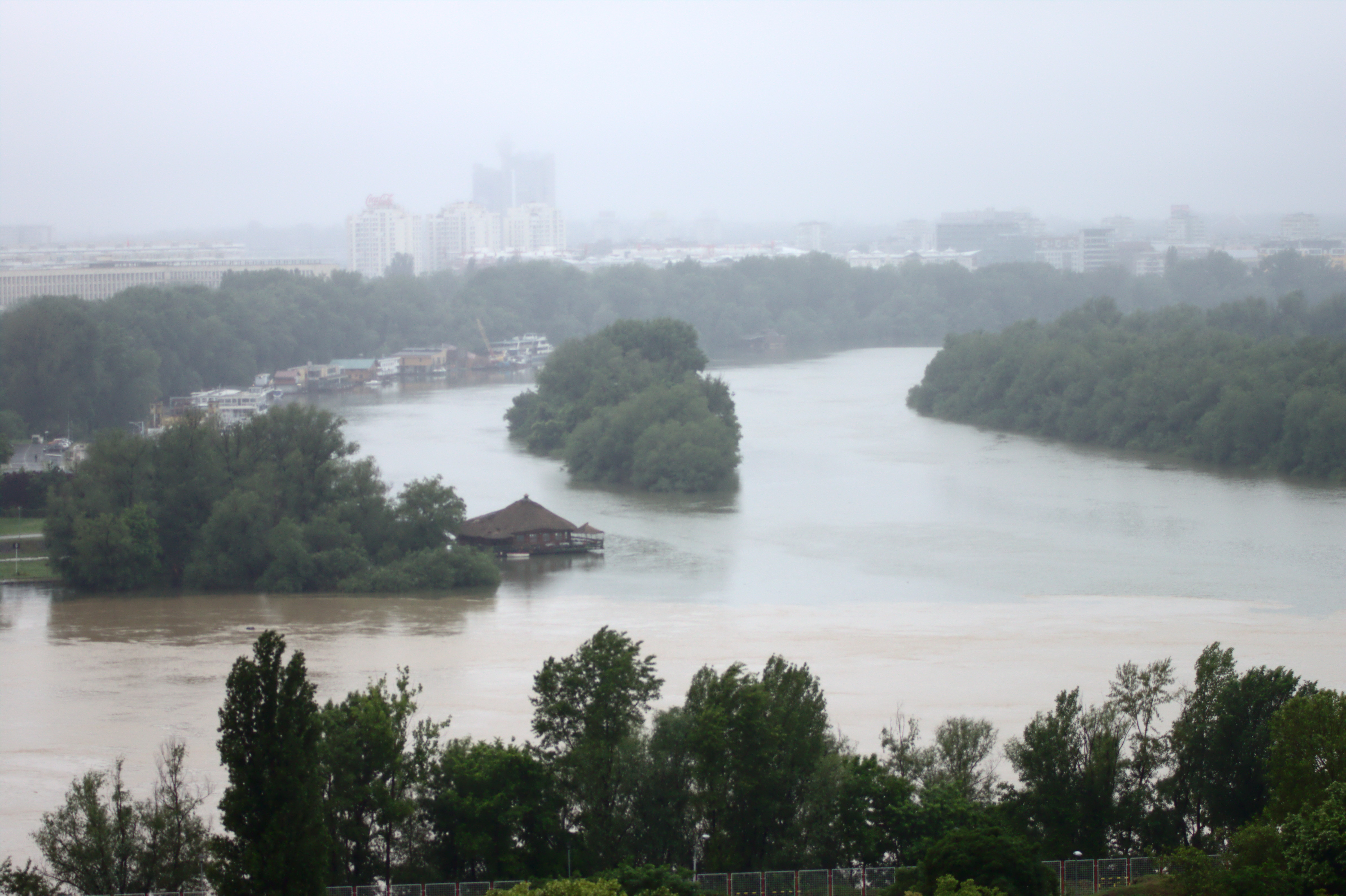 View of the Sava and Danube confluence in Belgrade, seen during Sava flood from Kalemegdan Fortress, Belgrade